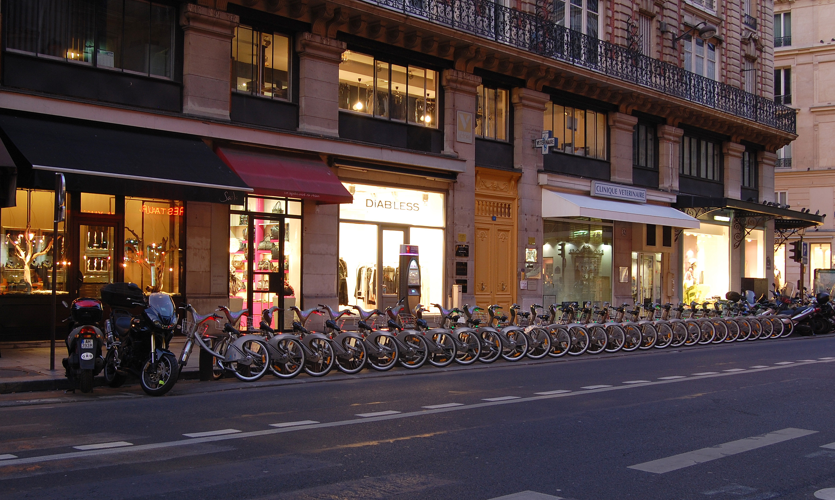 Velib'(Community bicycle programs of Paris) station, street Etienne Marcel, Paris 2nd district (France)